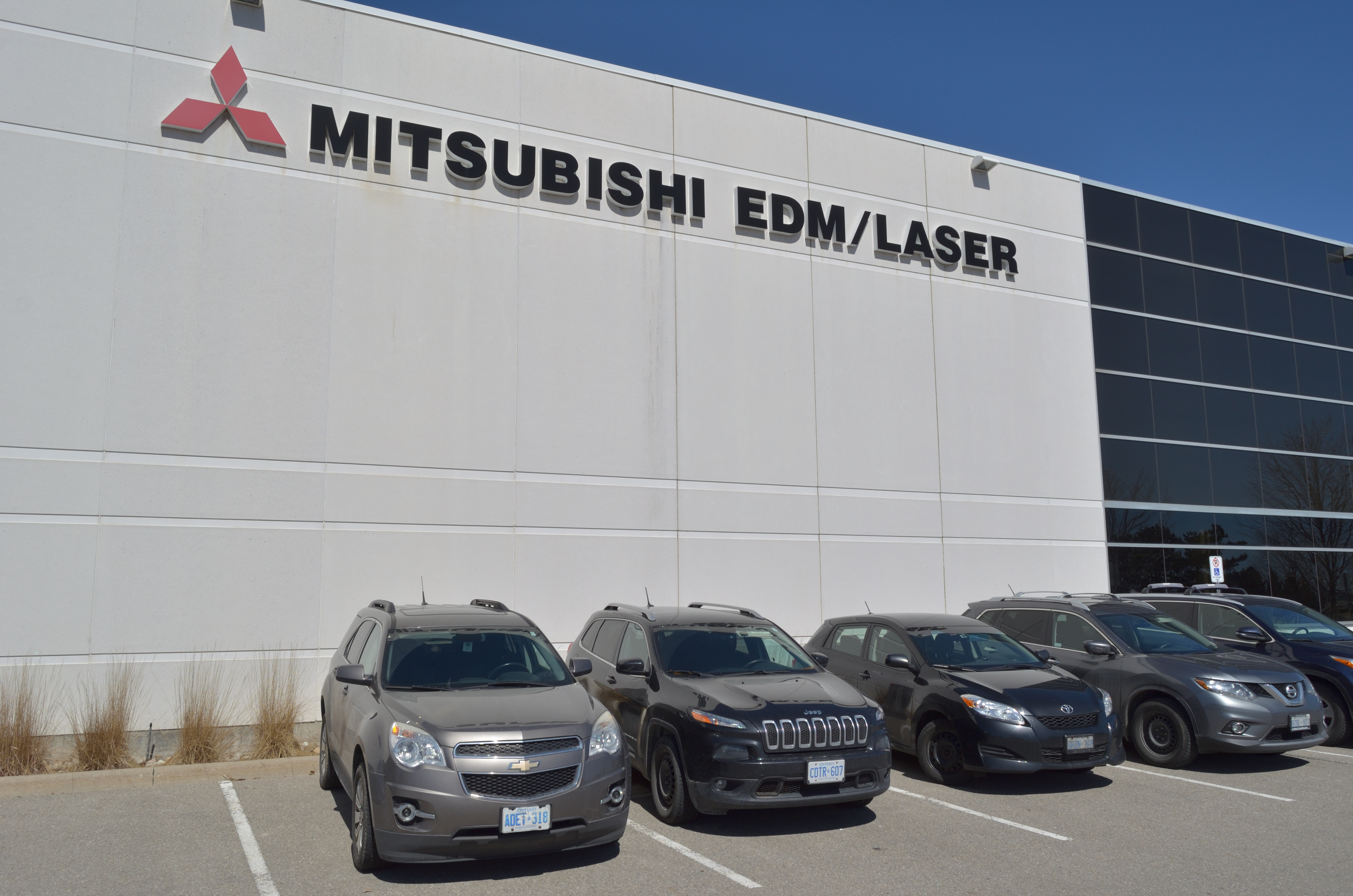 Mitsubishi EDM / Laser - 50 Vogell Road Unit #1, Richmond Hill, ONT L4B 3K6